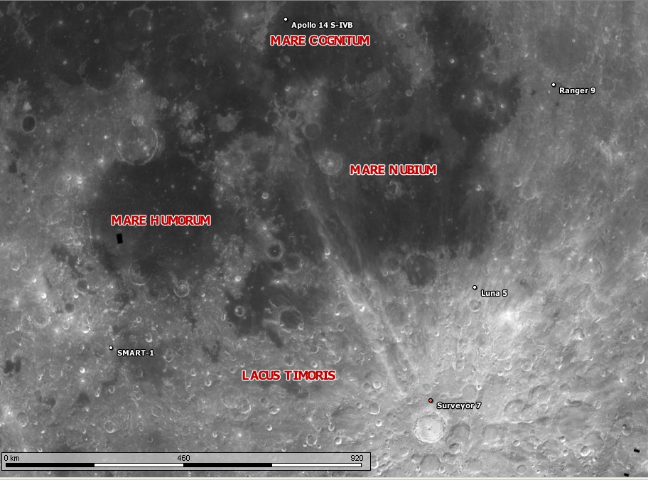 Lunar map showing the Smart 1 impact site, Ranger 9, Luna 5, Surveyor 7 and Apollo 14 sites. Created with the Marble program using public domain moon maps. Cropped with GIMP.